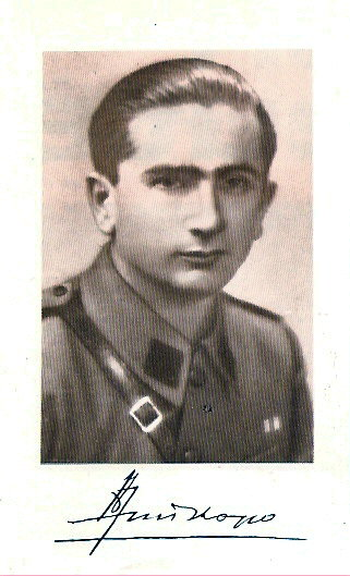 Hysni Kapo (1915–1979), Albanian military commander and leading member of the Party of Labour of Albania.